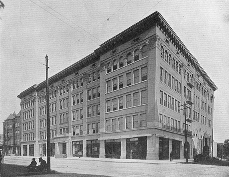 Lewis Institute constructed in 1895, merged with the Armour Institute of Technology in 1940 to form what is now the Illinois Institute of Technology. The Lewis Institute was demolished and in its place now stands the Category:United Center.